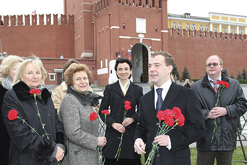 THE RED SQUARE, MOSCOW. Together with leaders of social organisations and representatives of compatriots abroad, the President laid flowers at the monument to Kuzma Minin and Dmitry Pozharsky in honour of National Unity Day.